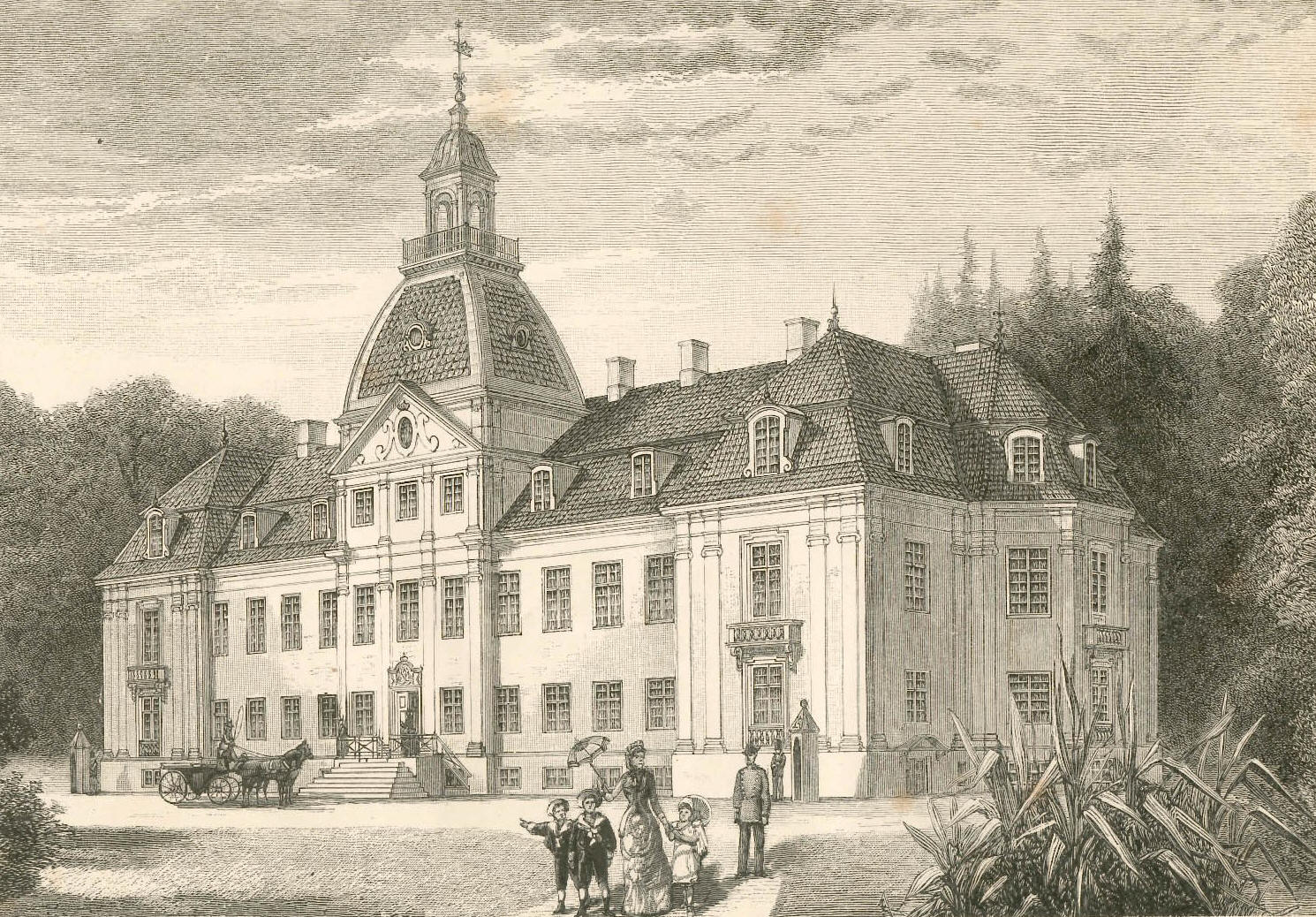 Charlottenlund Slot North of Copenhagen, Denmark. Illustration from Danske billeder for skole og hjem.